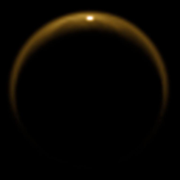 This image shows the first flash of sunlight reflected off a lake on Saturn's moon Titan. The glint off a mirror-like surface is known as a specular reflection. This kind of glint was detected by the visual and infrared mapping spectrometer (VIMS) on NASA's Cassini spacecraft on July 8, 2009. It confirmed the presence of liquid in the moon's northern hemisphere, where lakes are more numerous and larger than those in the southern hemisphere. Scientists using VIMS had confirmed the presence of liquid in Ontario Lacus, the largest lake in the southern hemisphere, in 2008.